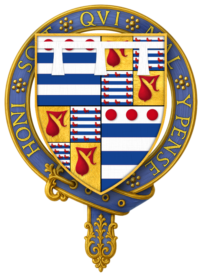 Sir John Grey, KG HOPE, W. H. St. John, The Stall Plates of the Knights of the Order of the Garter 1348 – 1485: A Series of Ninety Full-Sized Coloured Facsimiles with Descriptive Notes and Historical Introductions, Westminster: Archibald Constable and Company LTD, 1901. “ Sir John Grey of Ruthin, K.G. 1436-1439... a shield quarterly of Grey (barry of six silver and azure and in chief three roundels gules) and of Hastings (gold a maunch gules) quartering De Valence (barry silver and azure an orle of martlets gules) with a silver label... ” The Stall plate remains intact within the thirteenth stall, on the Sovereign's side of the chapel.